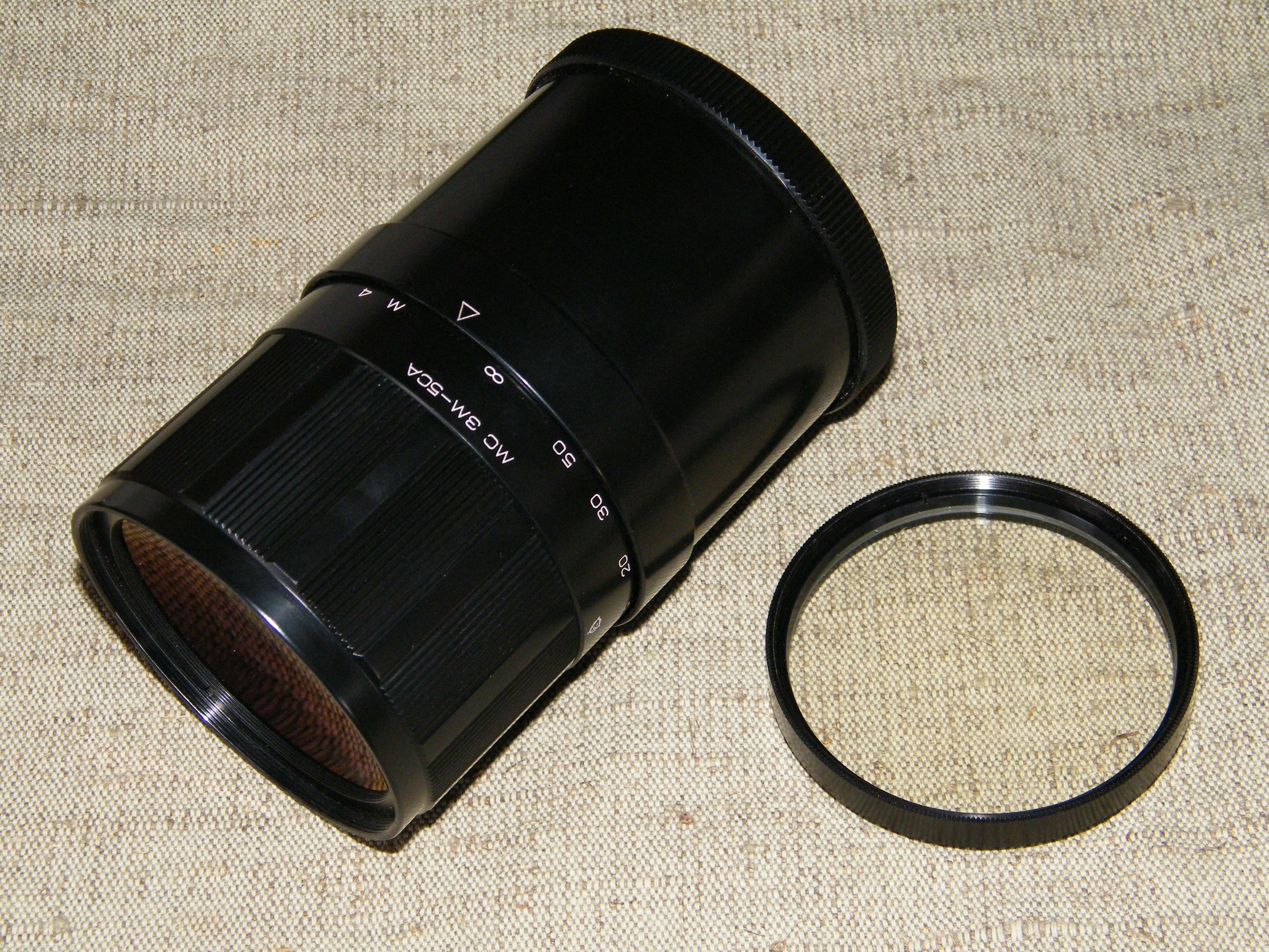 Soviet catadioptric telephoto lens «ZM-5SA».